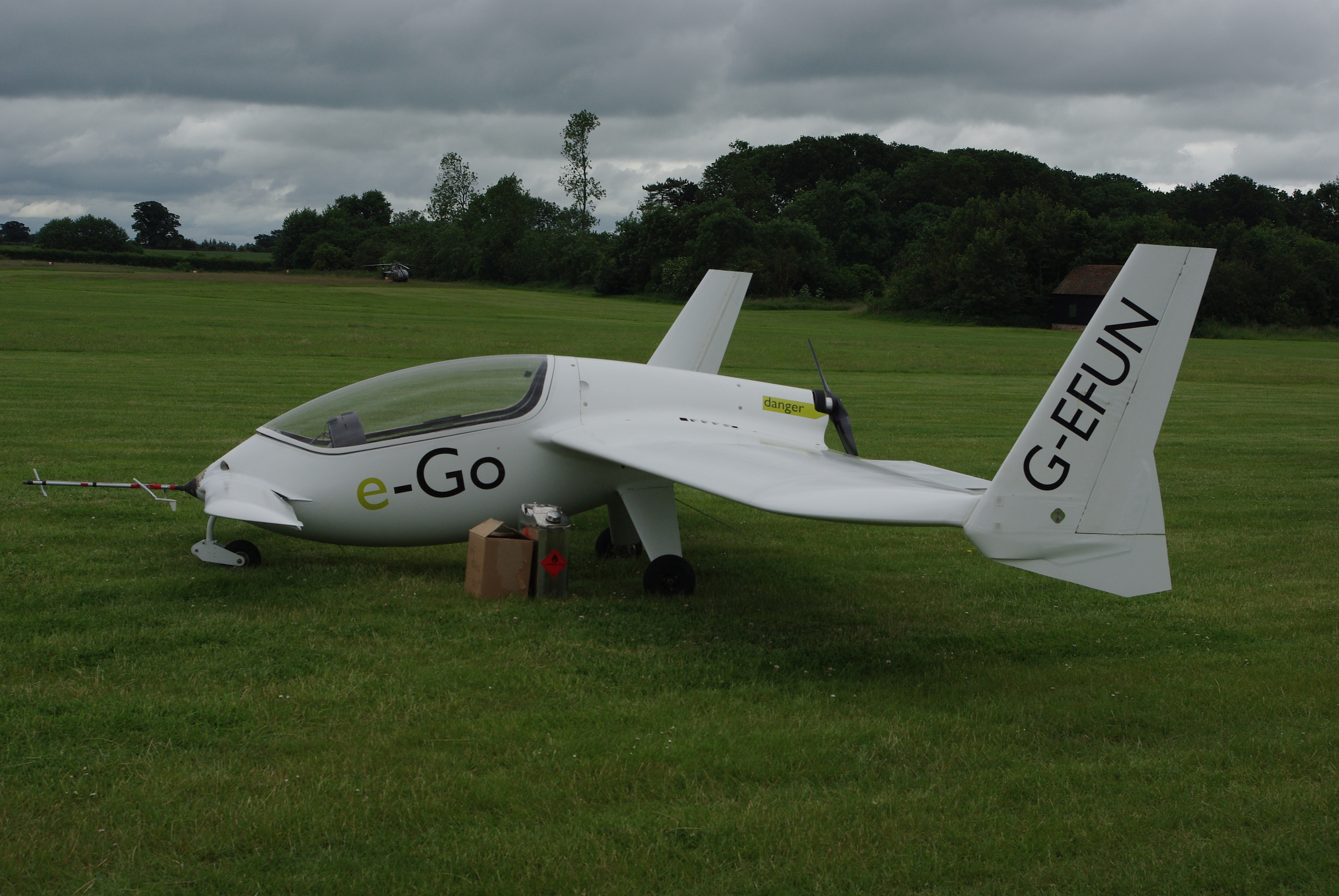 e-Go at old Warden 15 June 2014